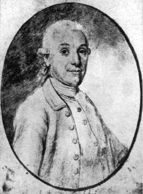 Portret of Antonio Lolli (1725-1802)